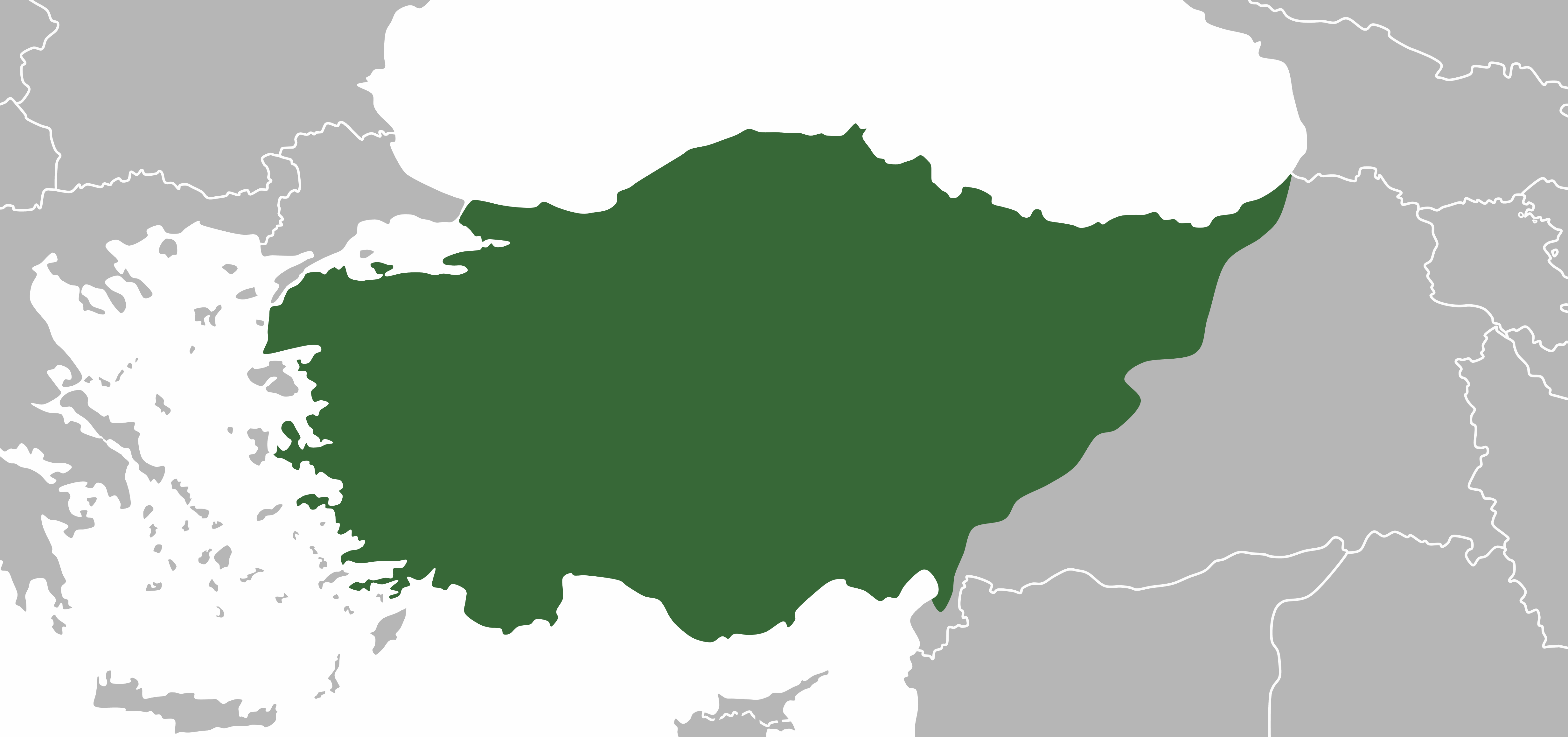 Map of the geographic region of Anatolia